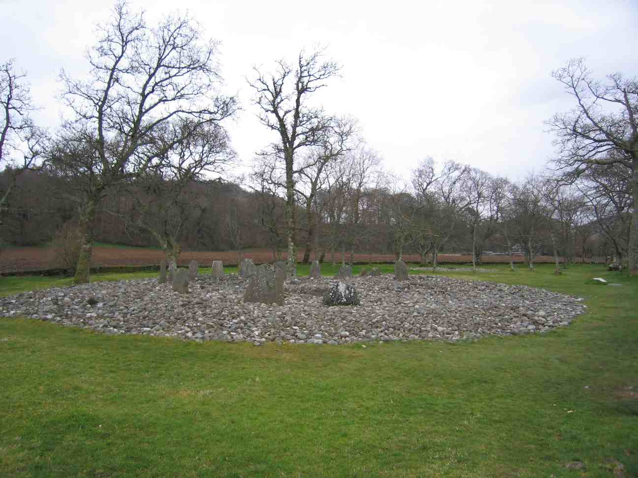 Photo by Laurence Nolan (April 2006), uploaded by Laurence Nolan. The circles at Temple Wood site. --Lnolan 20:21, 3 August 2006 (UTC)